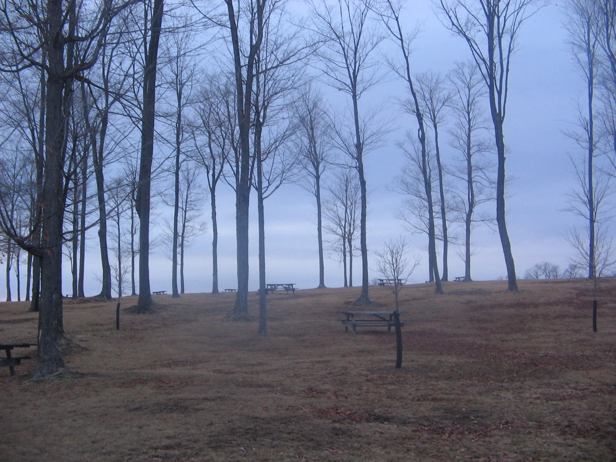 View of the camping area with picnic tables, looking toward the former airfield at Cherry Springs State Park, West Branch Township, Potter County, Pennsylvania, USA.